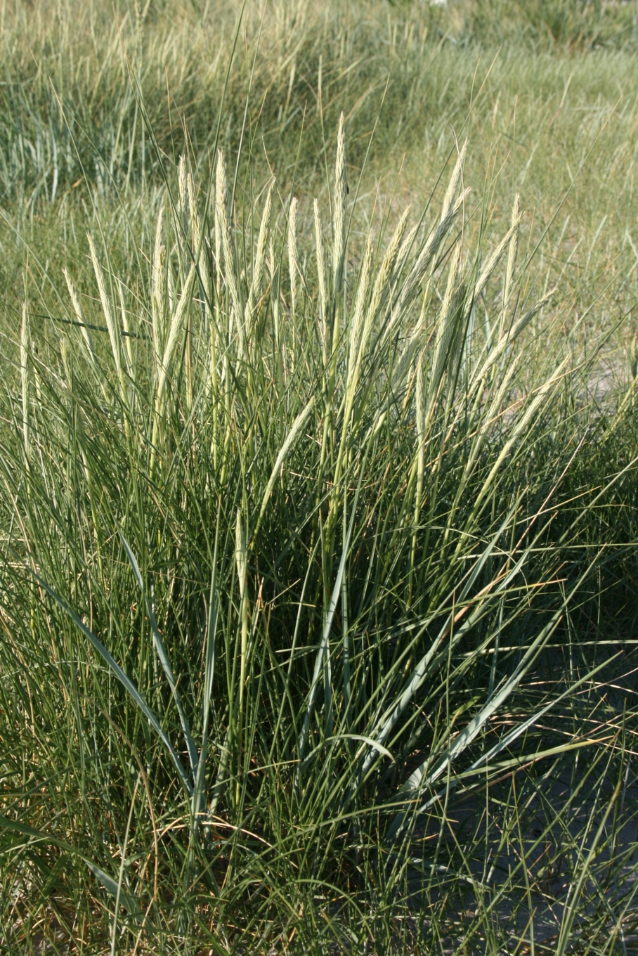 Ammophila arenaria: Habitus